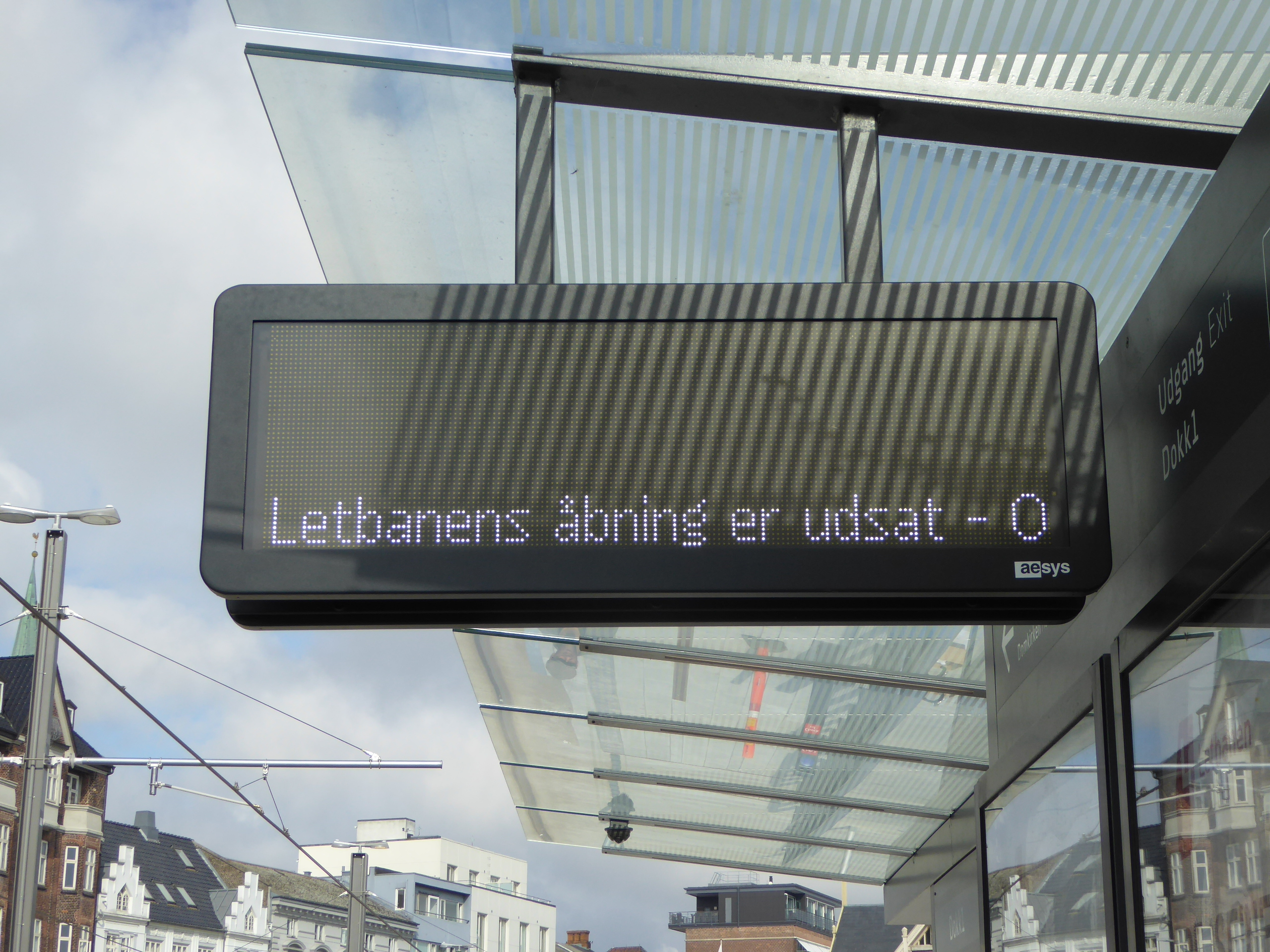 The grand opening of Aarhus Letbane was supposed to take place at 23 September 2017. It was however postponed the day the before, because the authorities would accept the security. The information boards tells that the opening is delayed.